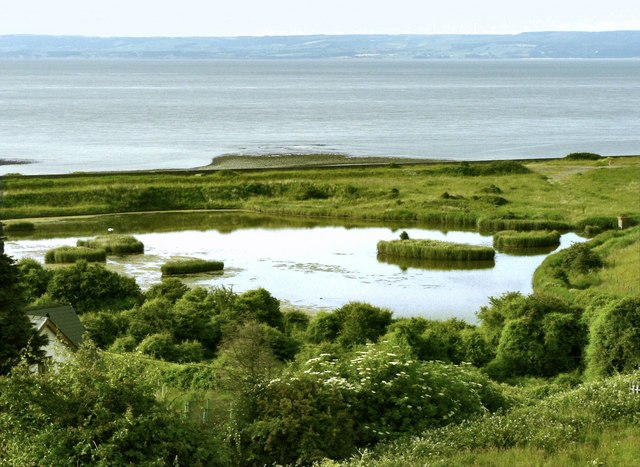 East Aberthaw lagoon This area, at the estuary of the River Thaw was once a busy port. The landscape was substantially altered by the building of Aberthaw Power Station when the river was straightened and the estuary became a tidal lagoon. Much of the nearby area is covered by ash from the station but it remains a site of importance for wild life. Since the tip was extended in the late '80s the reed beds have begun to regenerate and are now used by both Reed and Sedge Warblers. An Aquatic Warbler was trapped and ringed here, also in the '80s, and the reed beds served as roosts for Whinchat, Reed and Sedge Warbler, Kingfisher, Swallow and Yellow Wagtails and it is to be hoped that they, as well as other species that once used the area, might well be seen again as the area develops further.